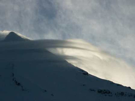 SuPhoto-20050809dMetVuw.jpg - photo taken and uploaded by Paul Moss, Photographer, Artist, Paul Moss Photographer Artist NZ